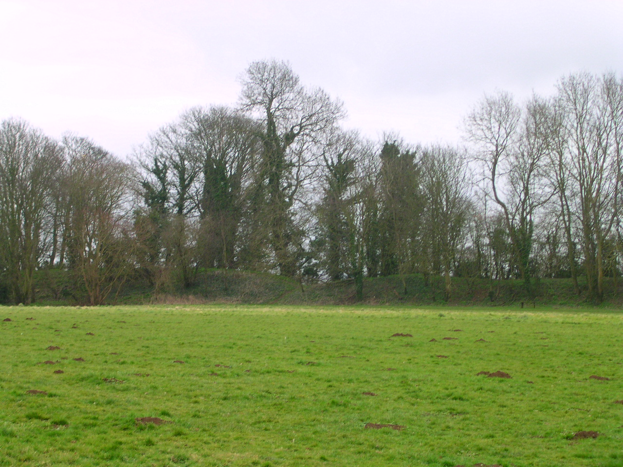 The outer bailey of Deddington Castle, Oxfordshire, England.